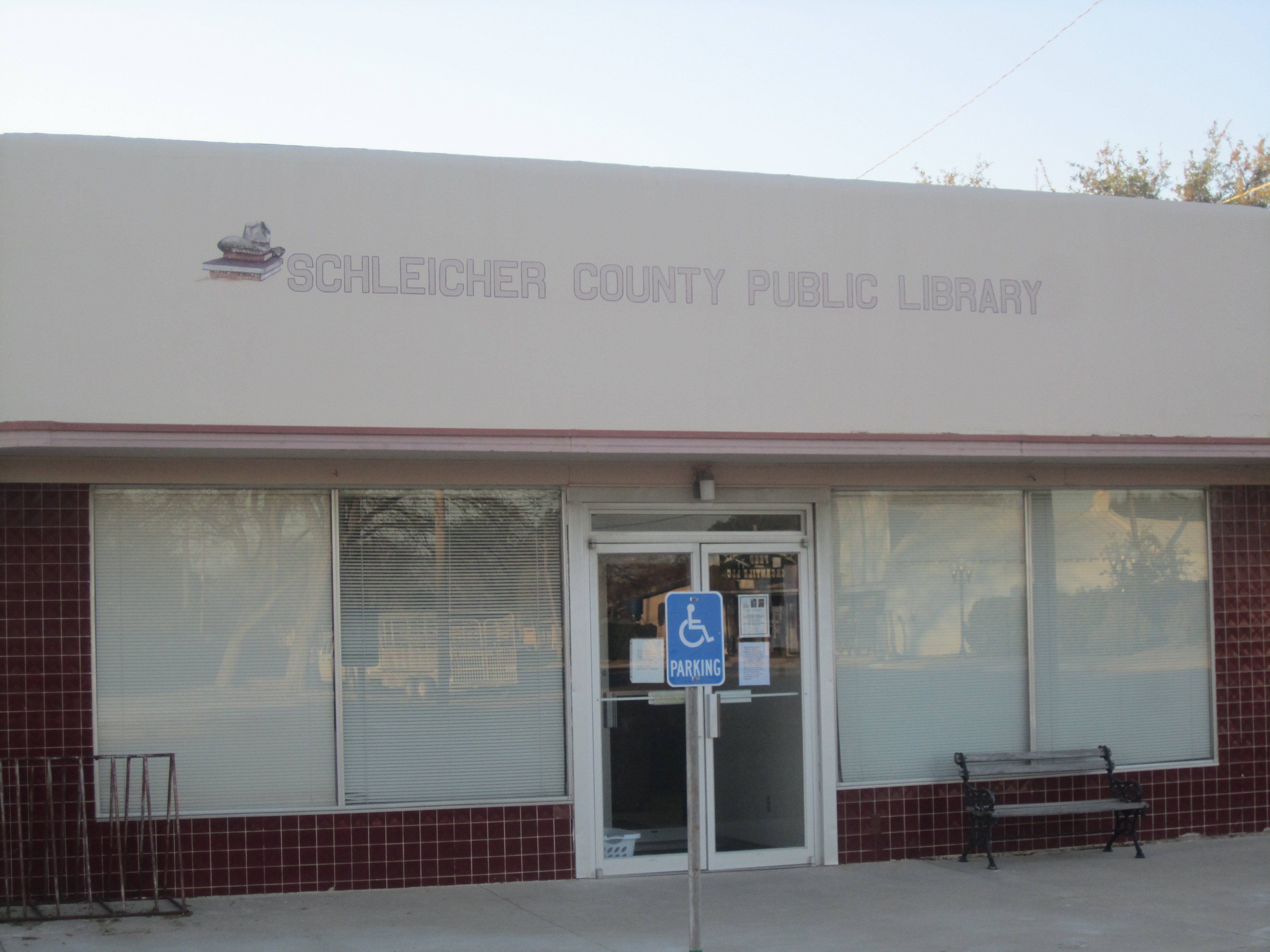 I took photo with Canon camera in Eldorado, TX.